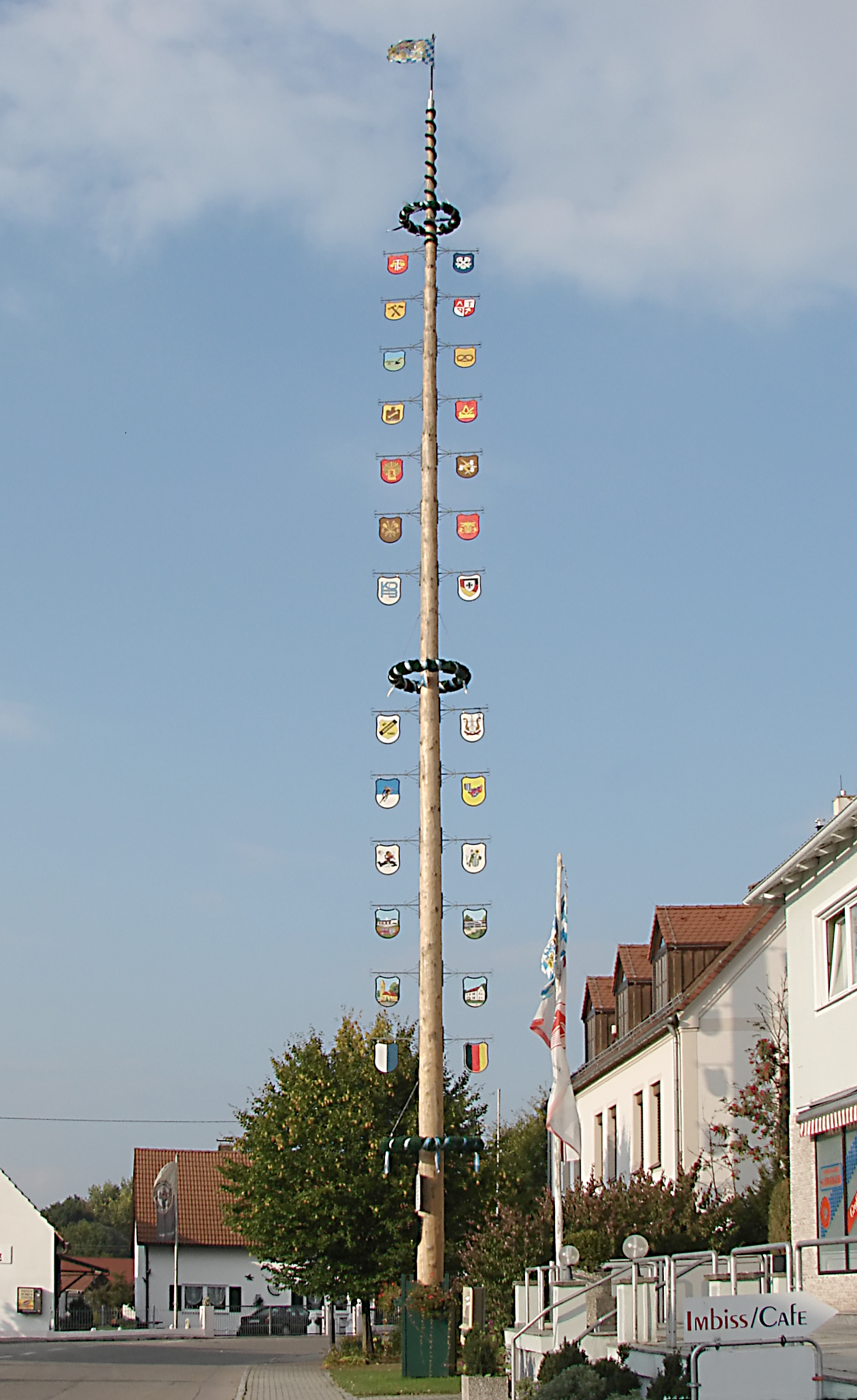 Maypole in Aresing, Bavaria